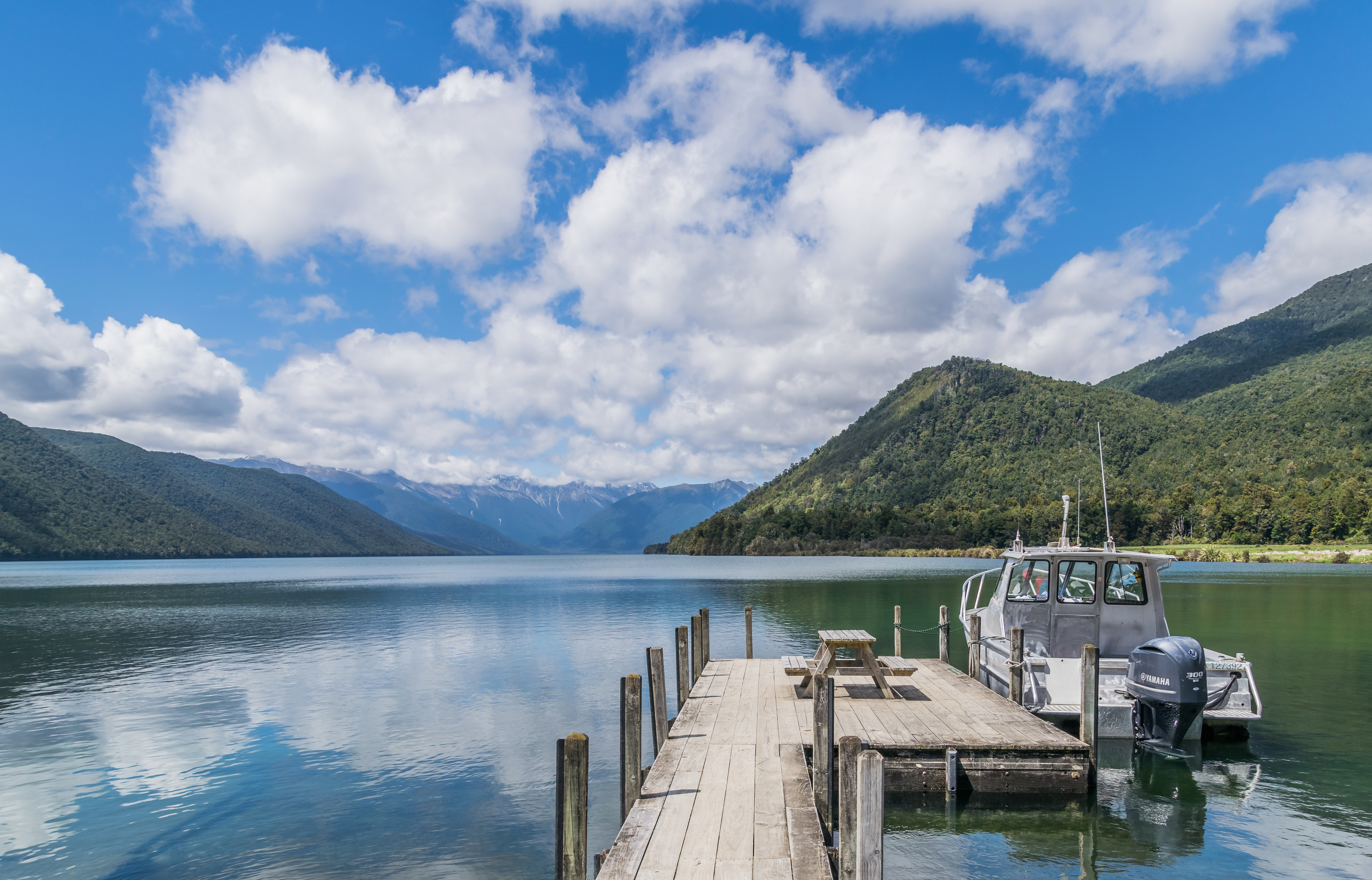 Lake Rotoroa in Nelson Lakes National Park in the South Island, New Zealand